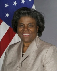 Ambassador Linda Thomas-Greenfield, the Assistant Secretary of State for African Affairs as of 2015